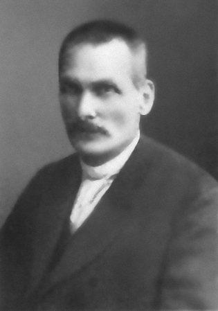 Johannes Benjamin Brennecke (1849-1931), German medical doctor